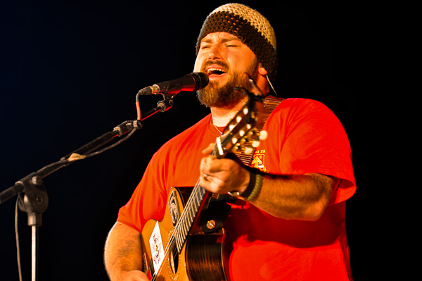 Original description on flickr: Zac Brown of the Zac Brown Band, a Grammy Award winning artist performs for the Soldiers of FOB Marez/Diamondback during the bands USO tour, April 16. 2nd Brigade Combat Team, 3rd Infantry Division Public Affairs Photo by Spc. Dustin Gautney Date: 04.16.2010 Location: COS Marez, IQ